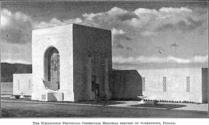 The Wellington Provincial Centennial Memorial erected on waterfront, Petone.